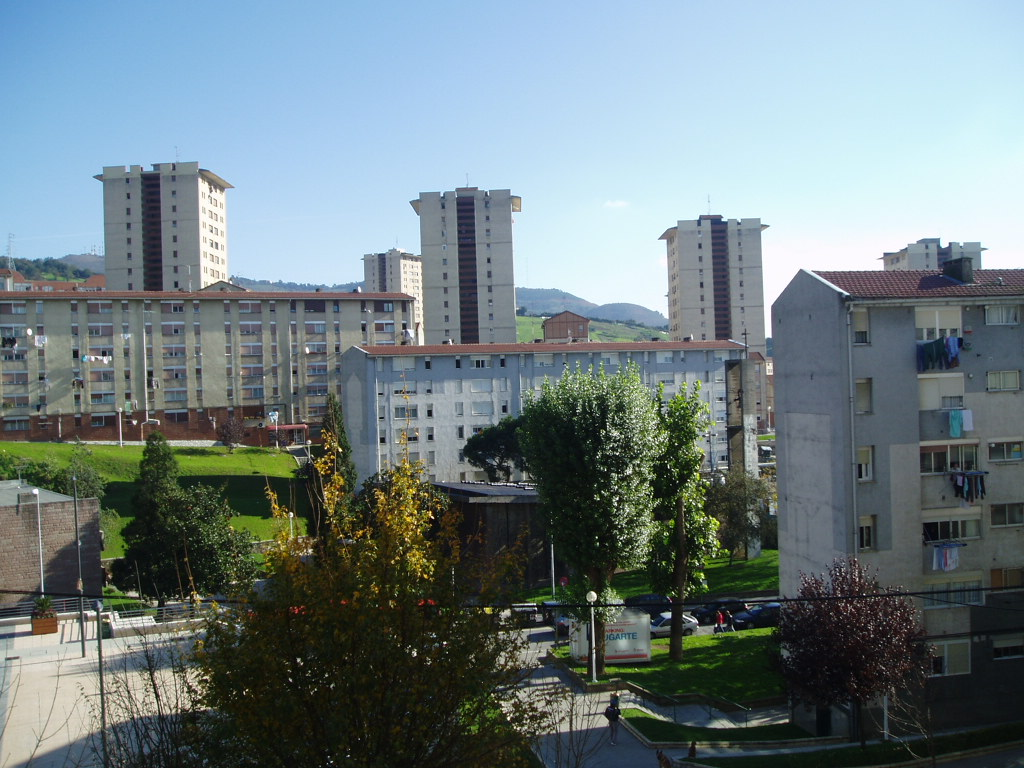 Otxarkoaga (Bilbao).